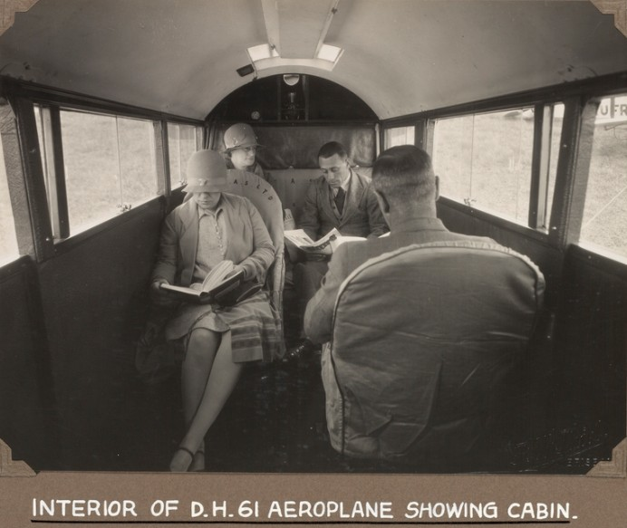 The interior of the De Havilland DH.61 showing 4 passengers in the 8 passengers capacity cabin QANTAS VH-UJB 1929.